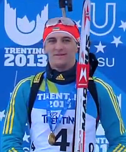 Dmytro Pidruchnyi at the 2013 Winter Universiade